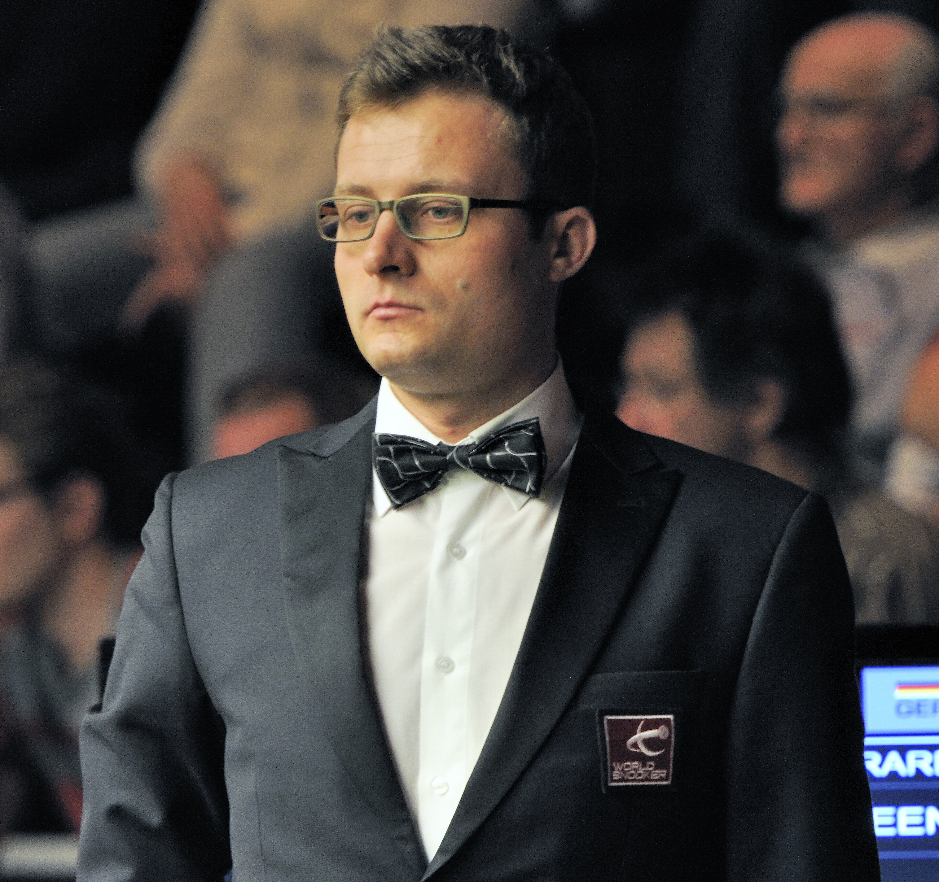 Picture taken in Berlin during the Snooker German Masters in 2014. Alex Crisan.